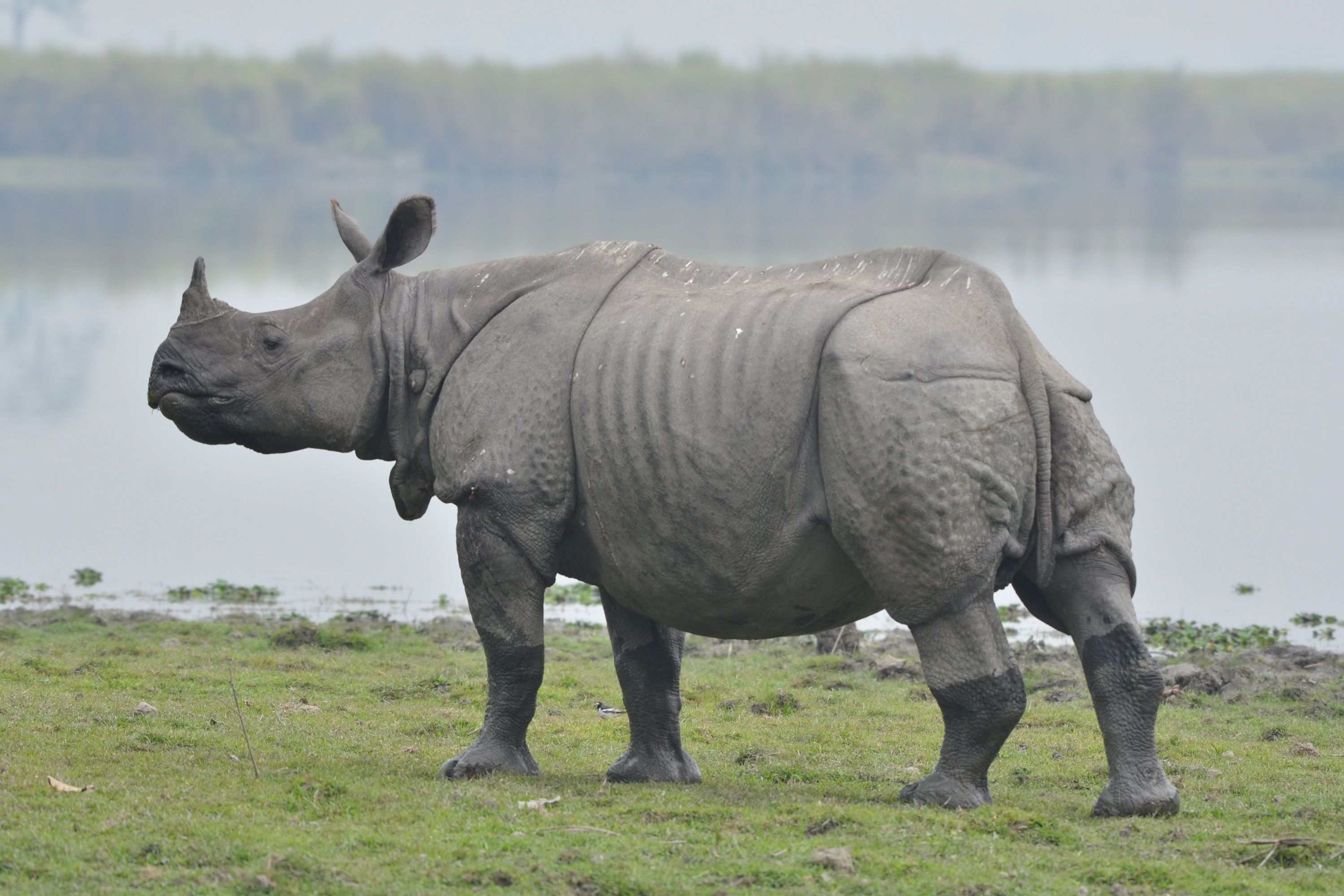 Indian rhinoceros as seen at the Kaziranga National Park in Assam .